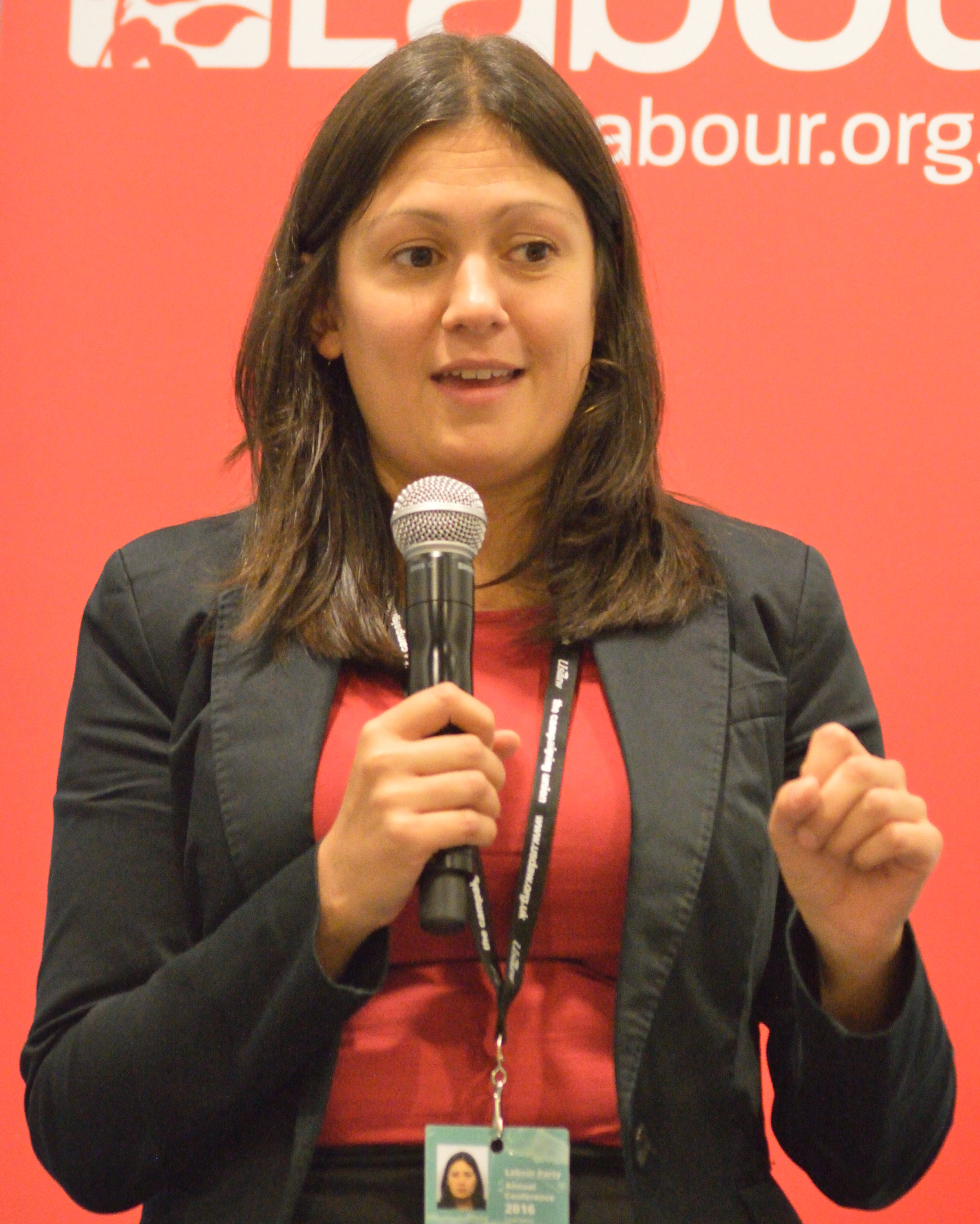 Lisa Nandy at the 2016 Labour Party Conference in Liverpool, speaking at the Sustainability Hub Reception organised by the Socialist Environment and Resources Association (SERA).